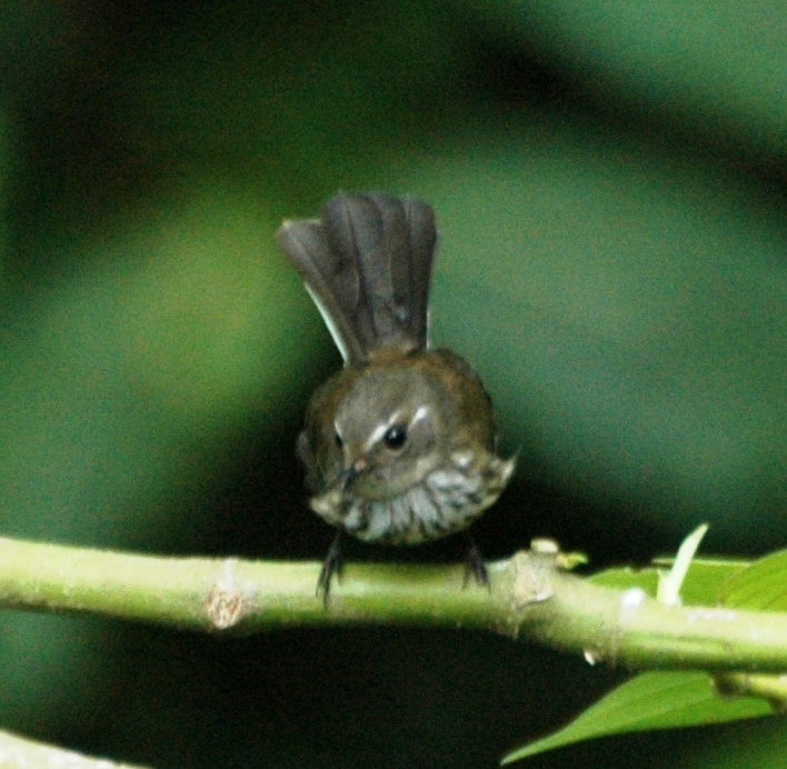 Streaked Fantail (Rhipidura spilodera) Abaca, Viti Levu, Fiji Isles